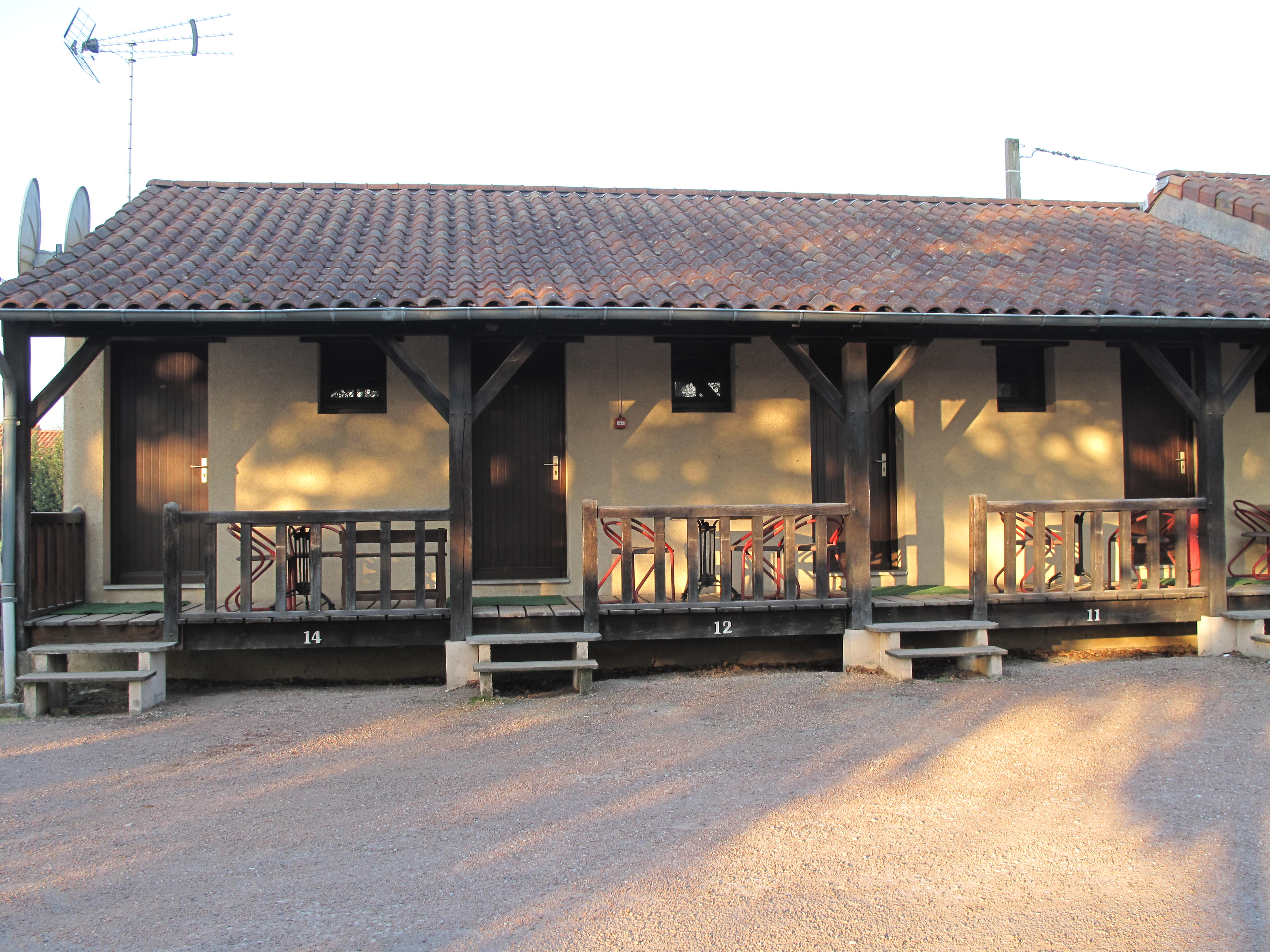 No number 13 room in a hotel : the room numbers are 11, 12 then 14 (Tournus, Saôbe-et-Loire, France).